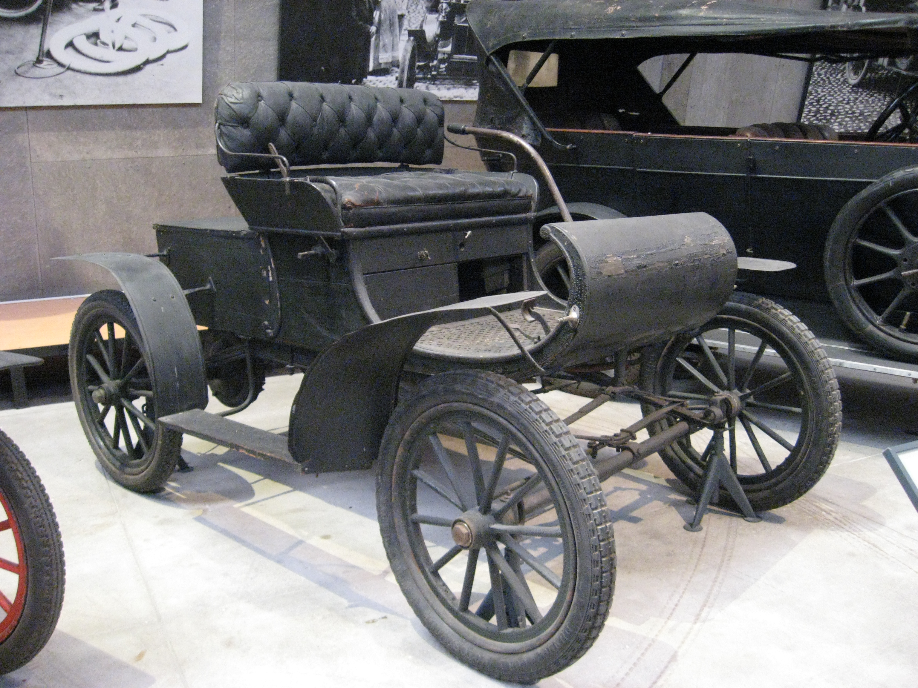 1902 Oldsmobile Model R Curved Dash Tekniska Museet: TEKS0027226